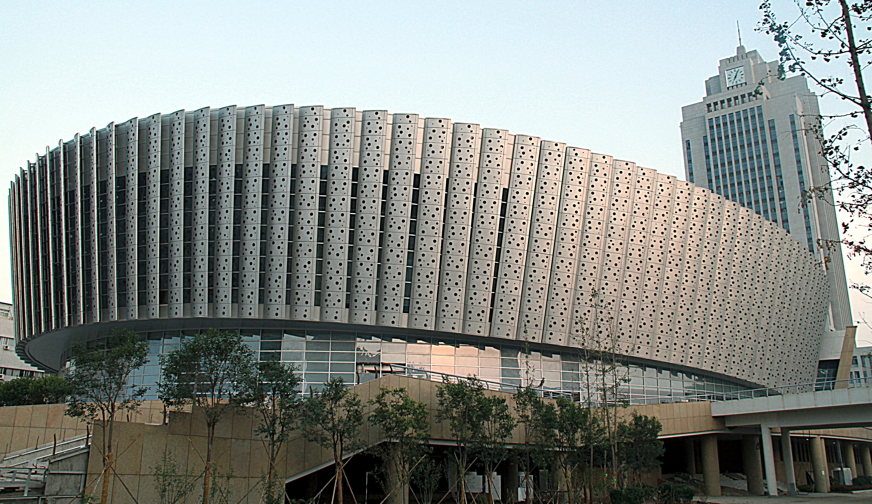 Photograph of the stadium (under construction) on the Central Campus of Shandong University in Jinan, Shandong Province, China.